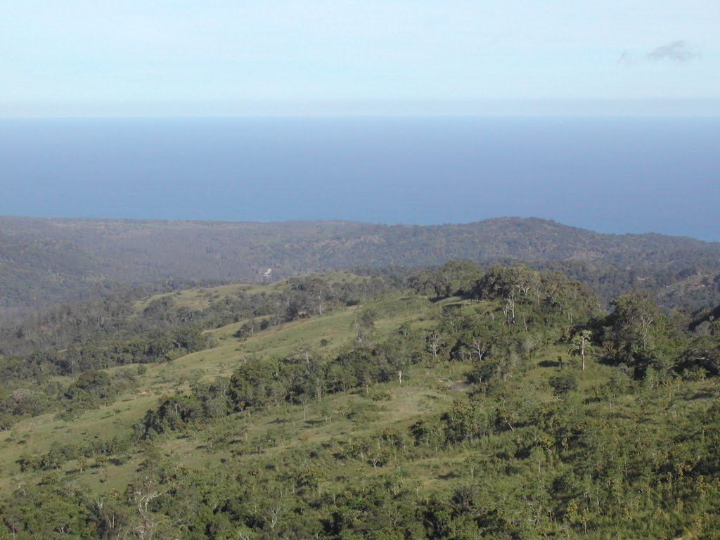 View towards Lore area from Iliomar-Uatu kerbau Road, Lautem, Timor-Leste